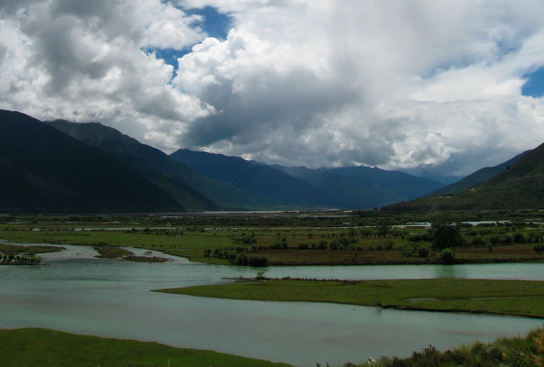 Melong valley near Chamdo town, downstream of it (conluded from original desciption "South of Chamdo (Qamdo) town, Chamdo County, Tibet")